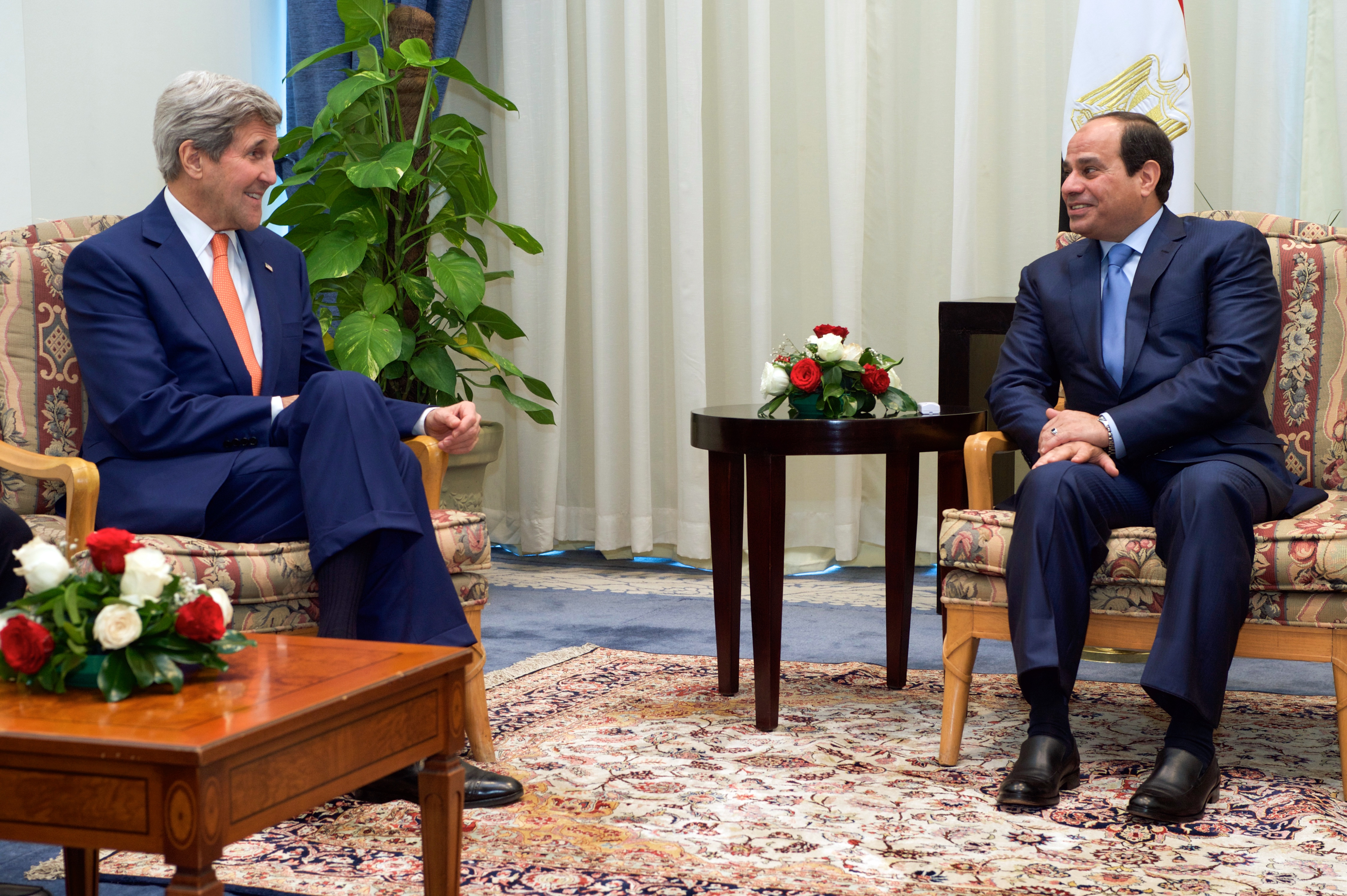 U.S. Secretary of State John Kerry sits with Egyptian President Abdel Fattah al-Sisi at the Congress Center in Sharm el-Sheikh, Egypt, on March 13, 2015, before a bilateral meeting and their attendance at an Egyptian development conference. [State Department Photo/Public Domain]